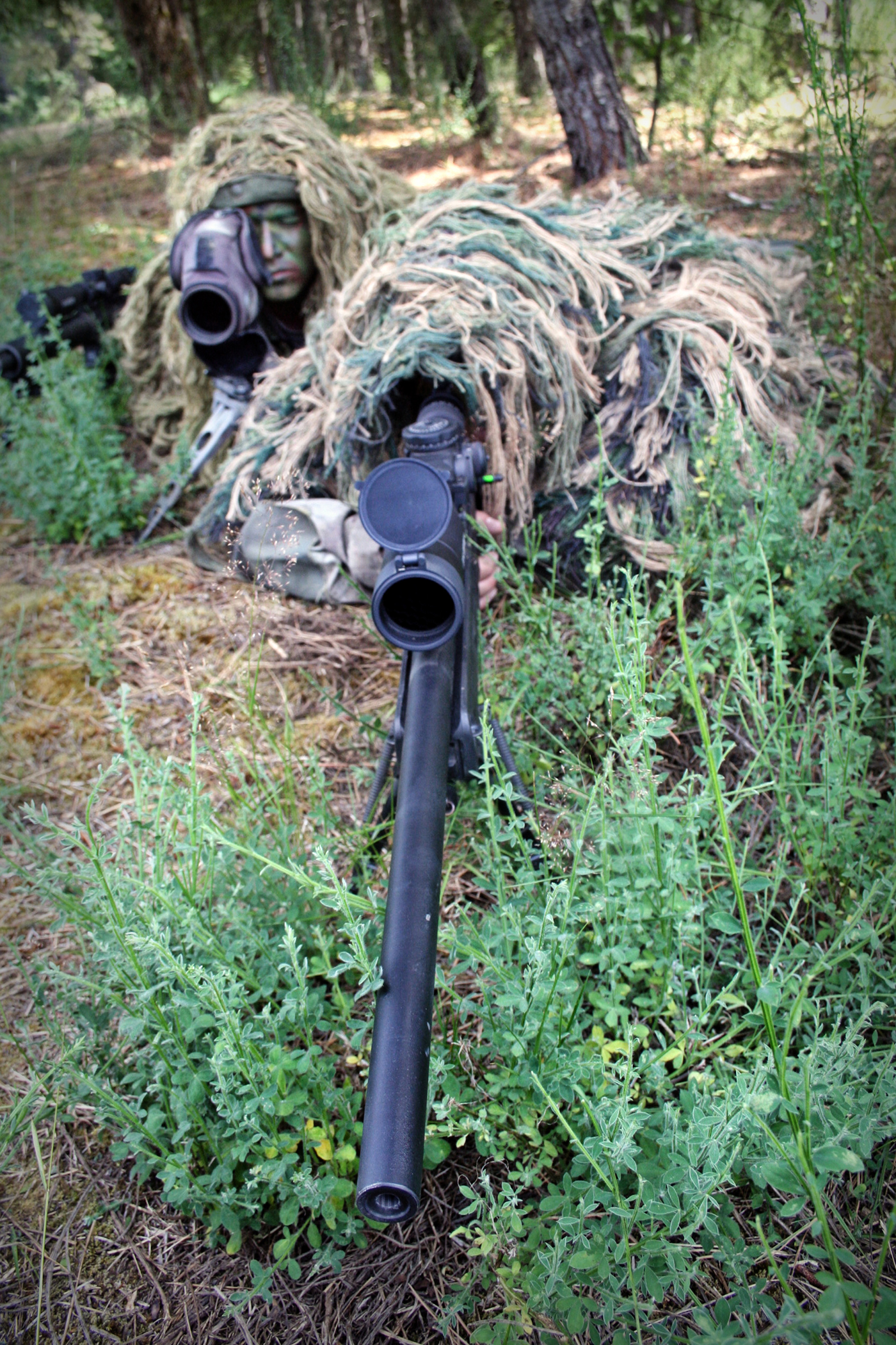 Staff Sgt. George Reinas and Senior Master Sgt. Nathan Brett practice sniper skills for an Air Mobility Rodeo 2011 scenario July 27, 2011, on a range at Joint Base Lewis-McChord, Wash. Brett and Reinas were the event coordinators for the advanced marksmanship event.